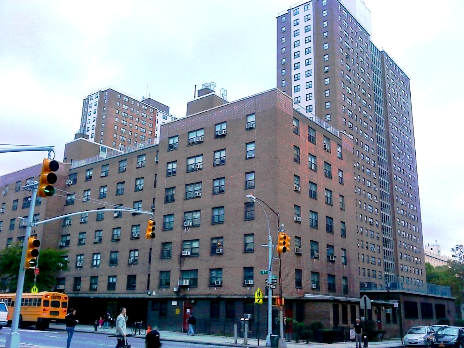 Buildings of the New York City Housing Authority's Fulton Houses at Ninth Avenue and West 18th Street in the Chelsea neighborhood of Manhattan, New York City